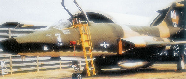 A U.S. Air Force McDonnell RF-101C-45-MC Voodoo (s/n 56-0176) of the 45th Tactical Reconnaissance Squadron, 460th Tactical Reconnaissance Wing, at Tan Son Nhut Air Base, South Vietnam, in 1969.